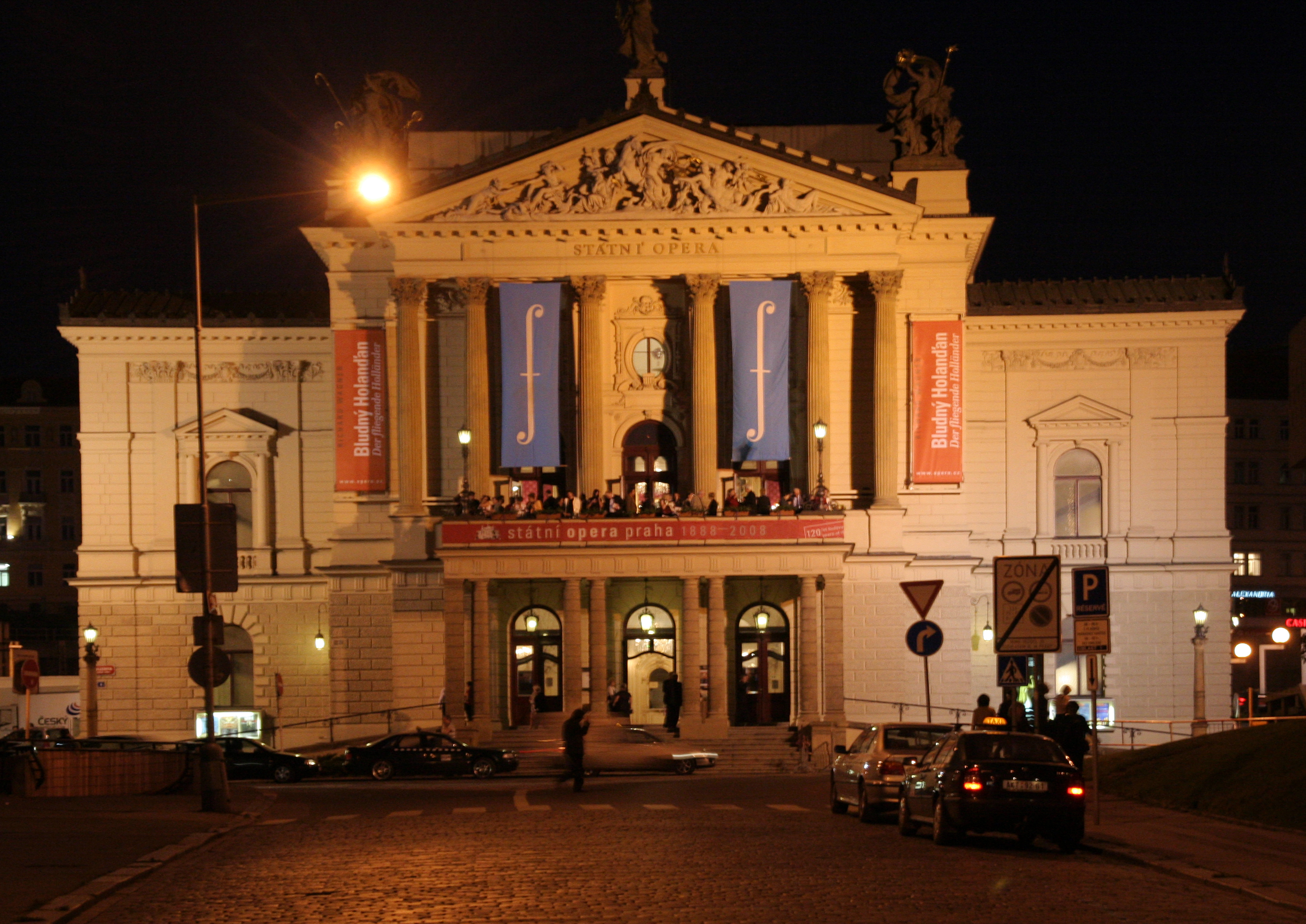 State Opera House